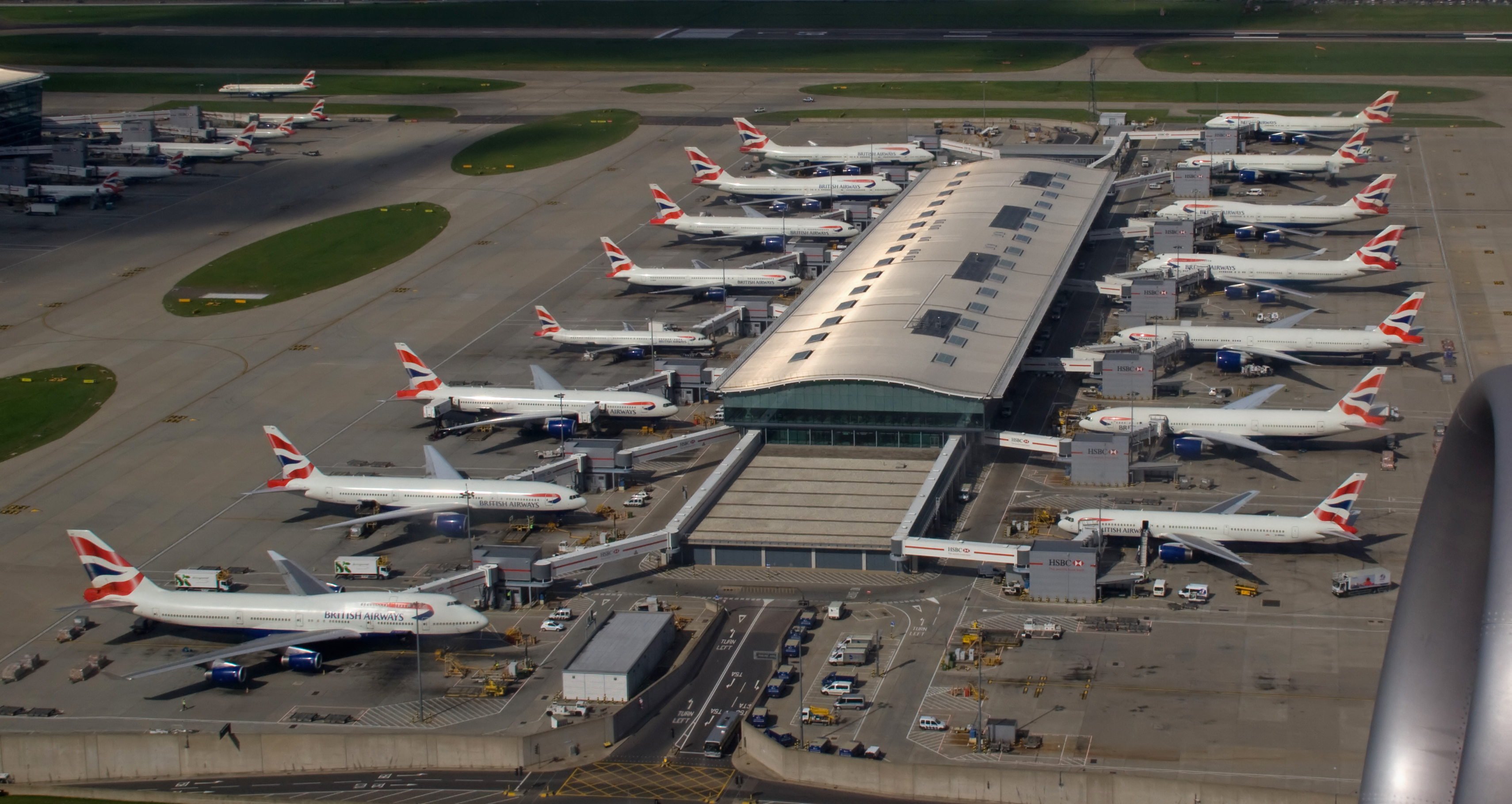 Terminal 5 at London Heathrow Airport